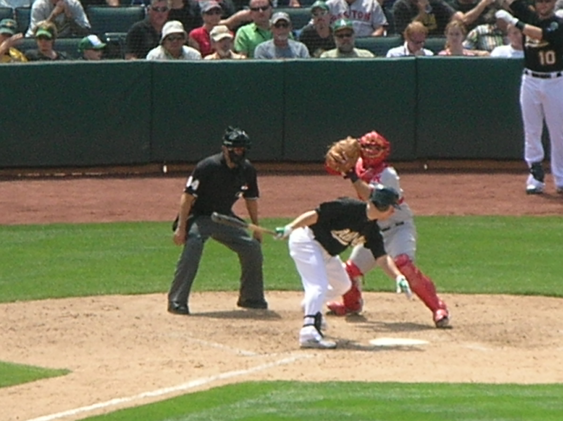 Boston Red Sox catcher Dusty Brown manages to throw out Oakland A's center field Coco Crisp who attempted to steal second base during a home game against the Boston Red Sox. The A's won 6-4.